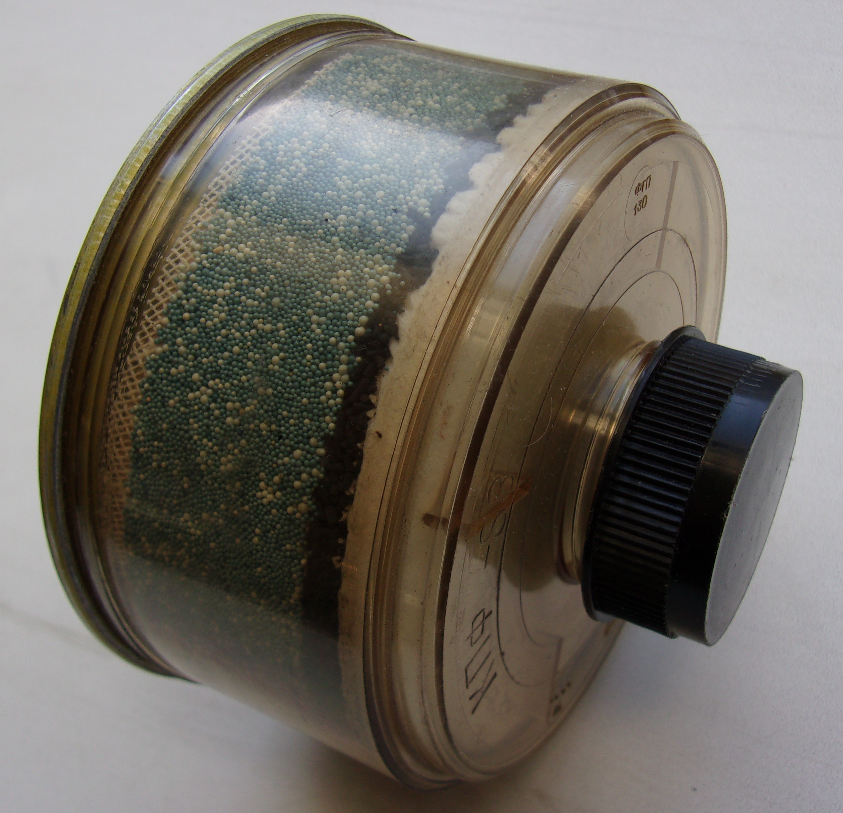 Combined gas and particulate respirator filter for protection against acid gases, the type of BKF (БКФ). It has transparent body and special sorbent that changes color after the saturation. This color change may be used for timely replacement of respirators' filters (like End of Service Life Indicator ESLI). The filter is made, presumably, in the city of Dzerzhinsk, Nizhny Novgorod region (RF).